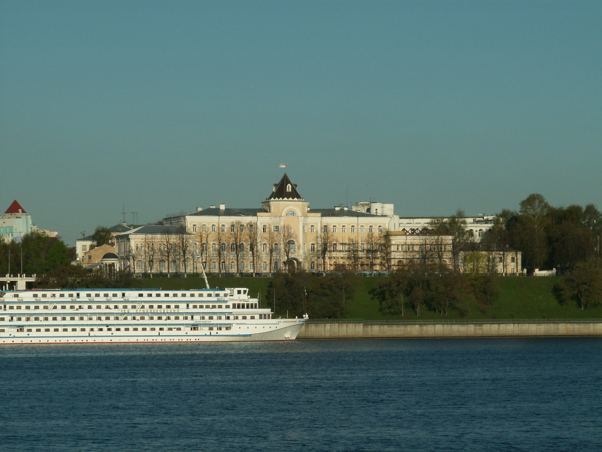 The Northern Railway administration building (Yaroslavl, Russia)